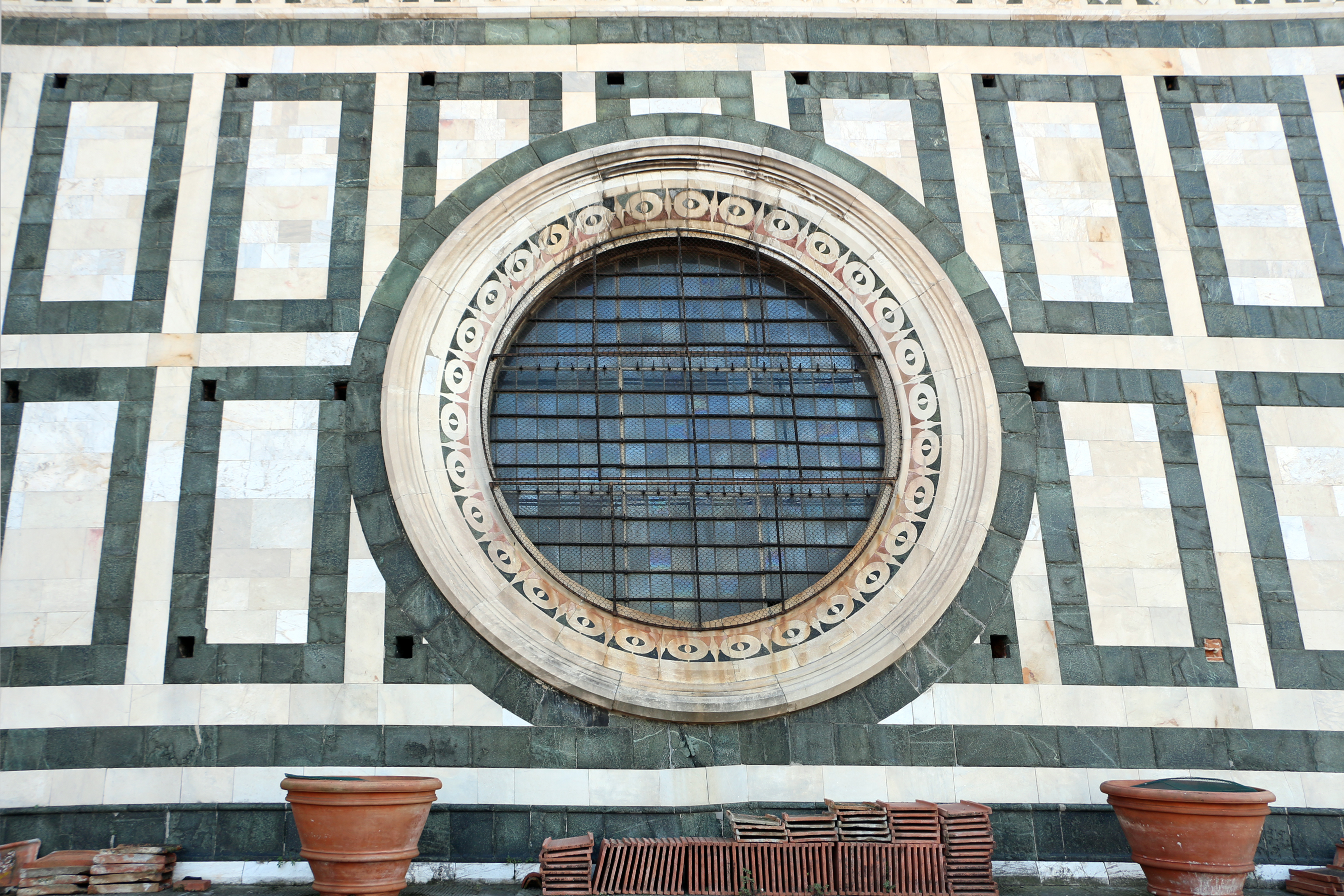 Exterior of Santa Maria del Fiore (Florence)